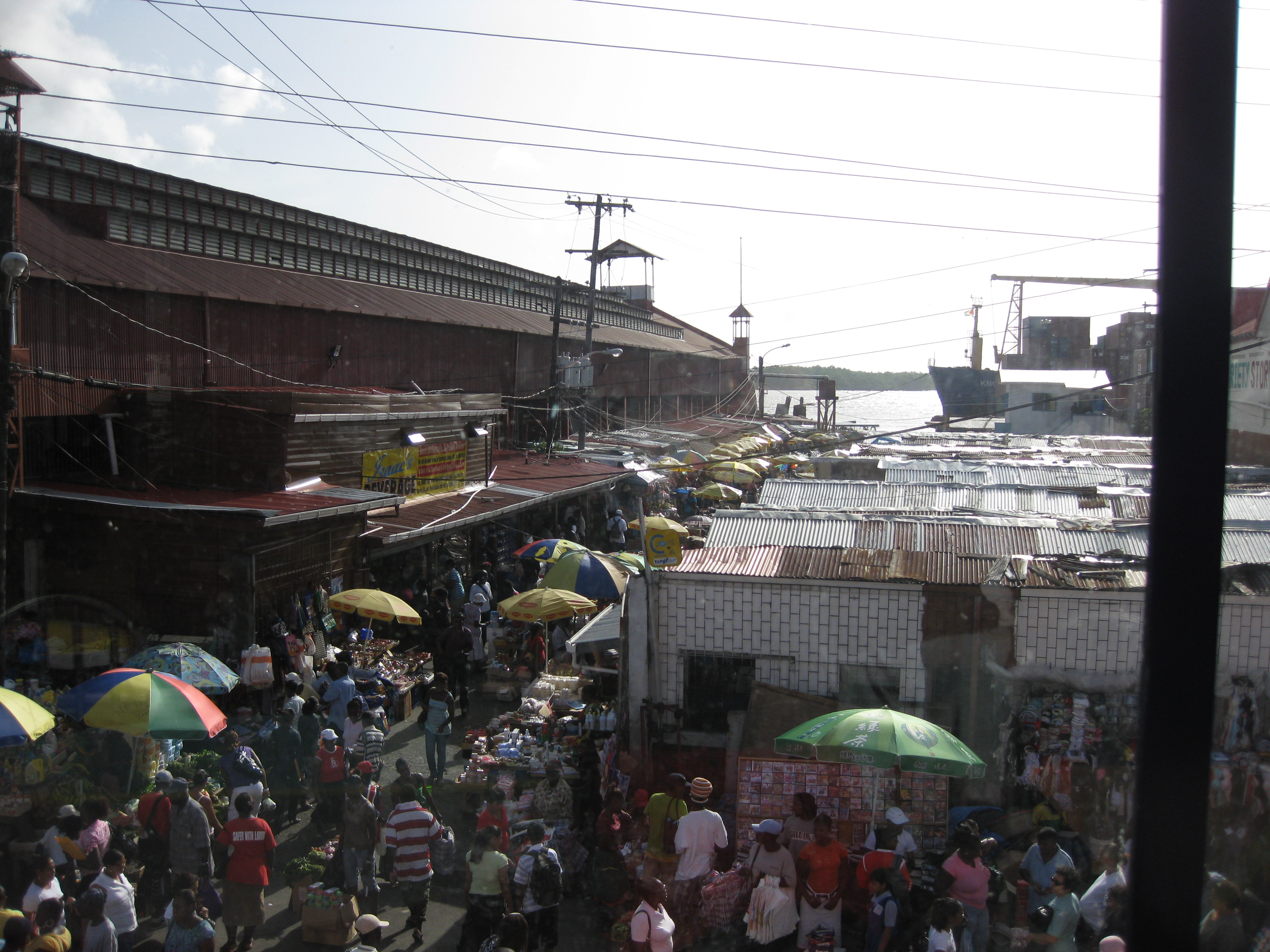 Photograph of Stabroek Market, Georgetown, Guyana